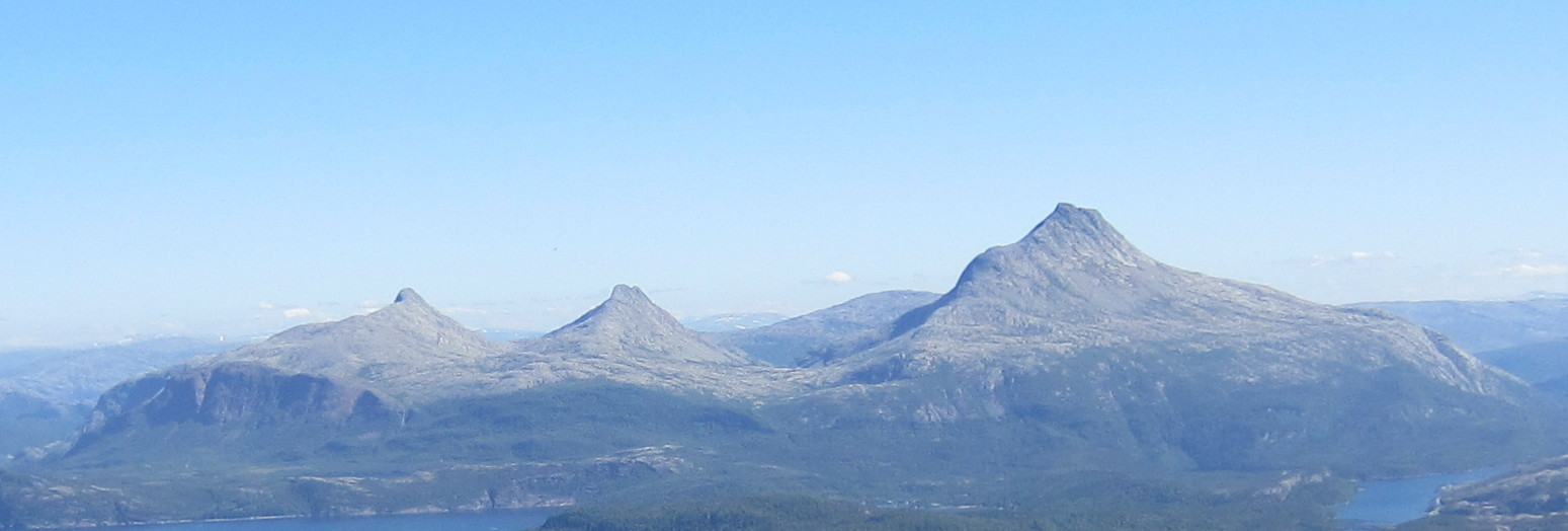 Photography of three mountains in Bindal, Norway. Left to right: Litlhornet (797 m), Kula (770 m) and Heilhornet (1058 m). Photo taken from Tyskenghatten.